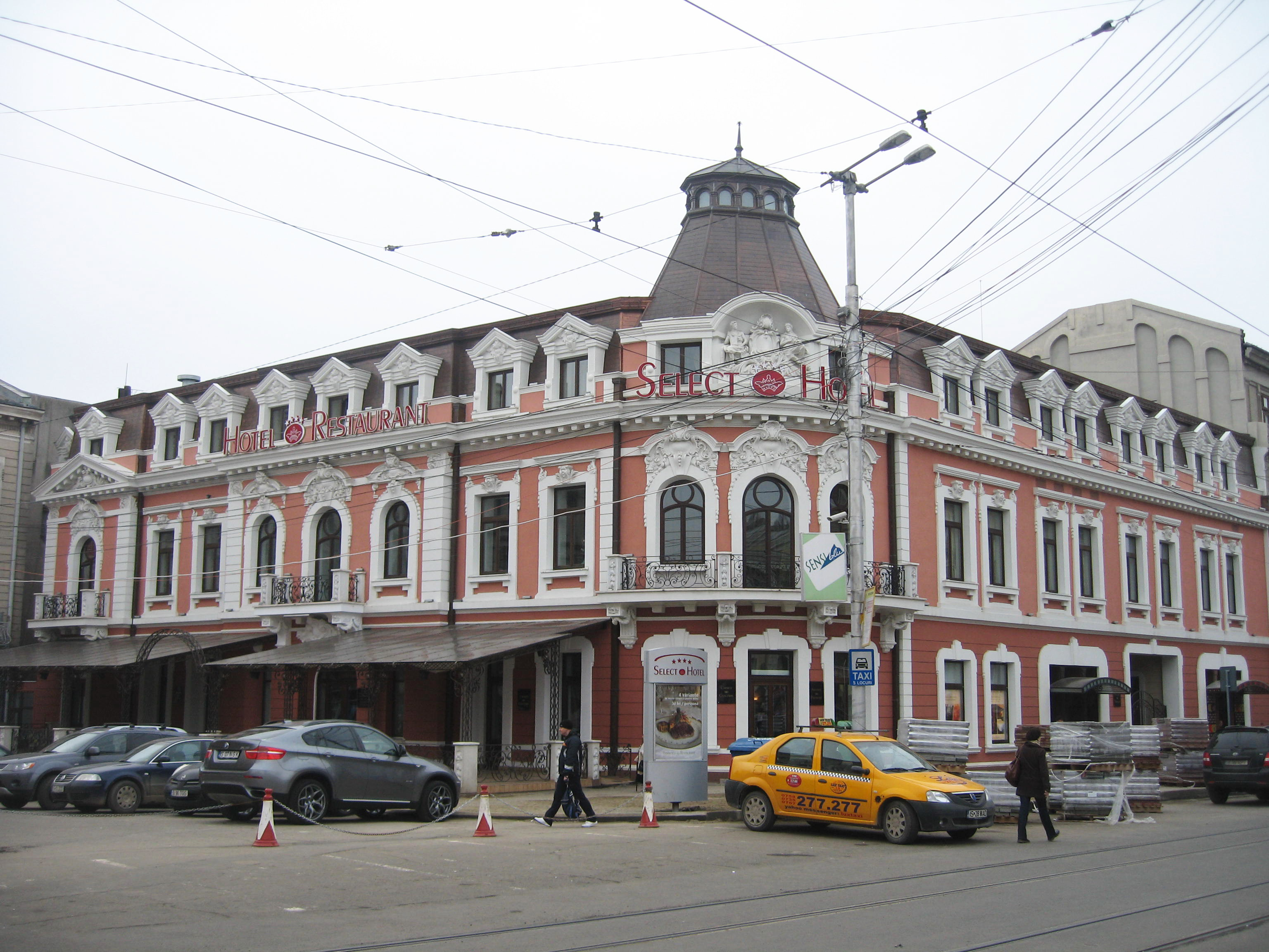 Palatul Neuschotz din Iași